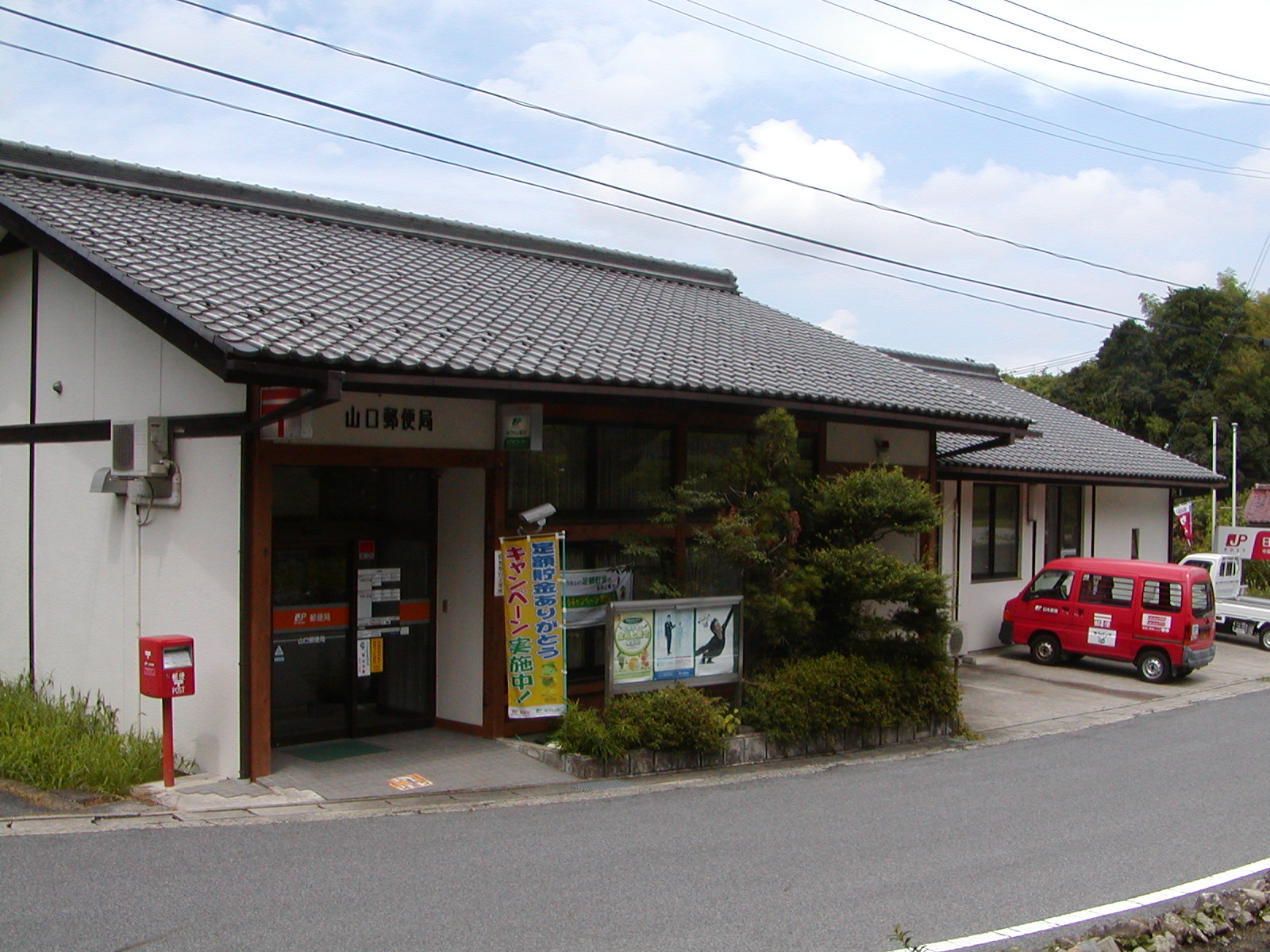 Post office of Yamaguchi. Yamaguchi Nakatsugawa City, Gifu Pref, Japan